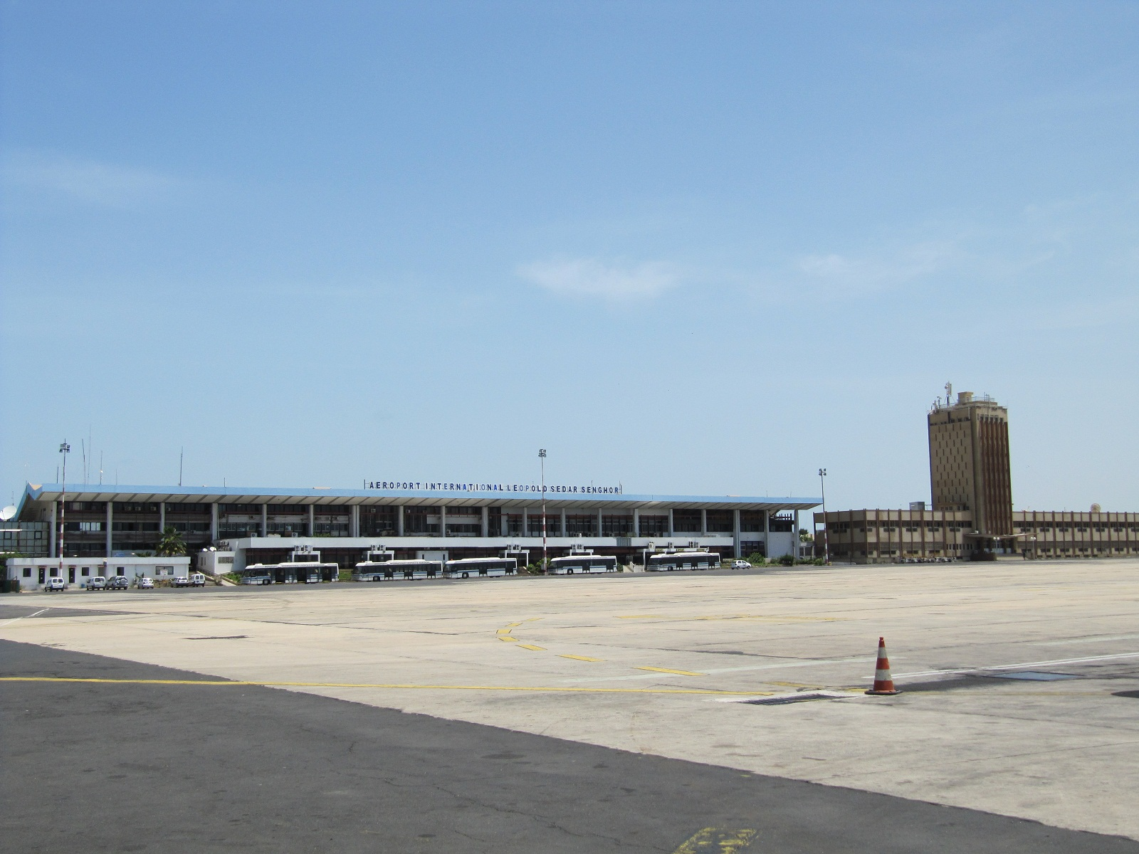 Leopold Sedar Senghor International Airport (DKR), Dakar